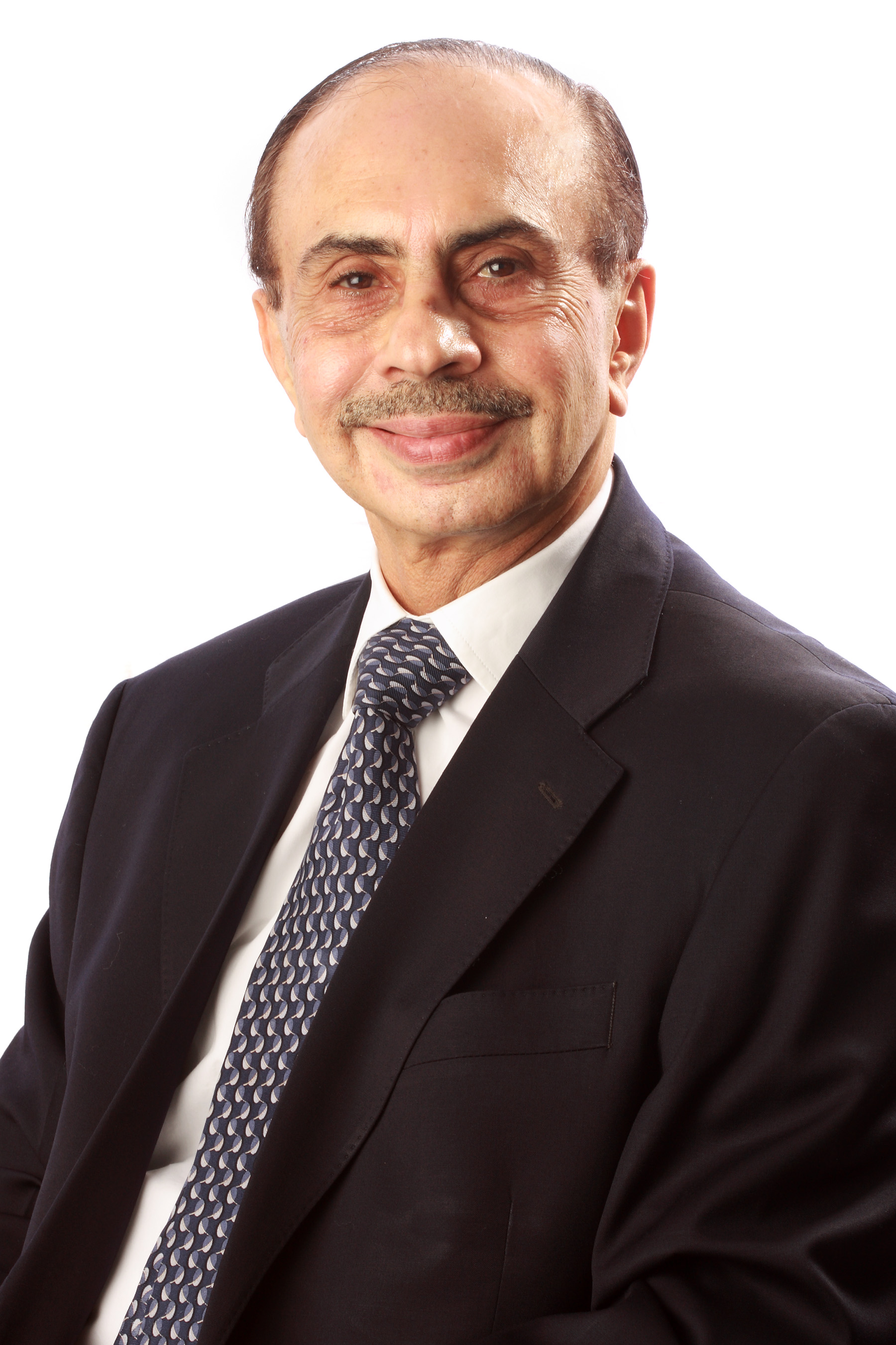 Adi Godrej